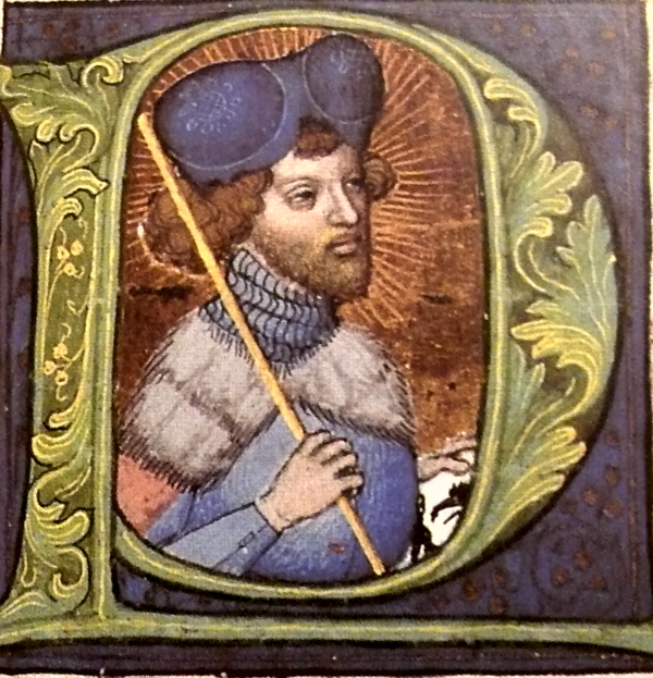 Václav IV.